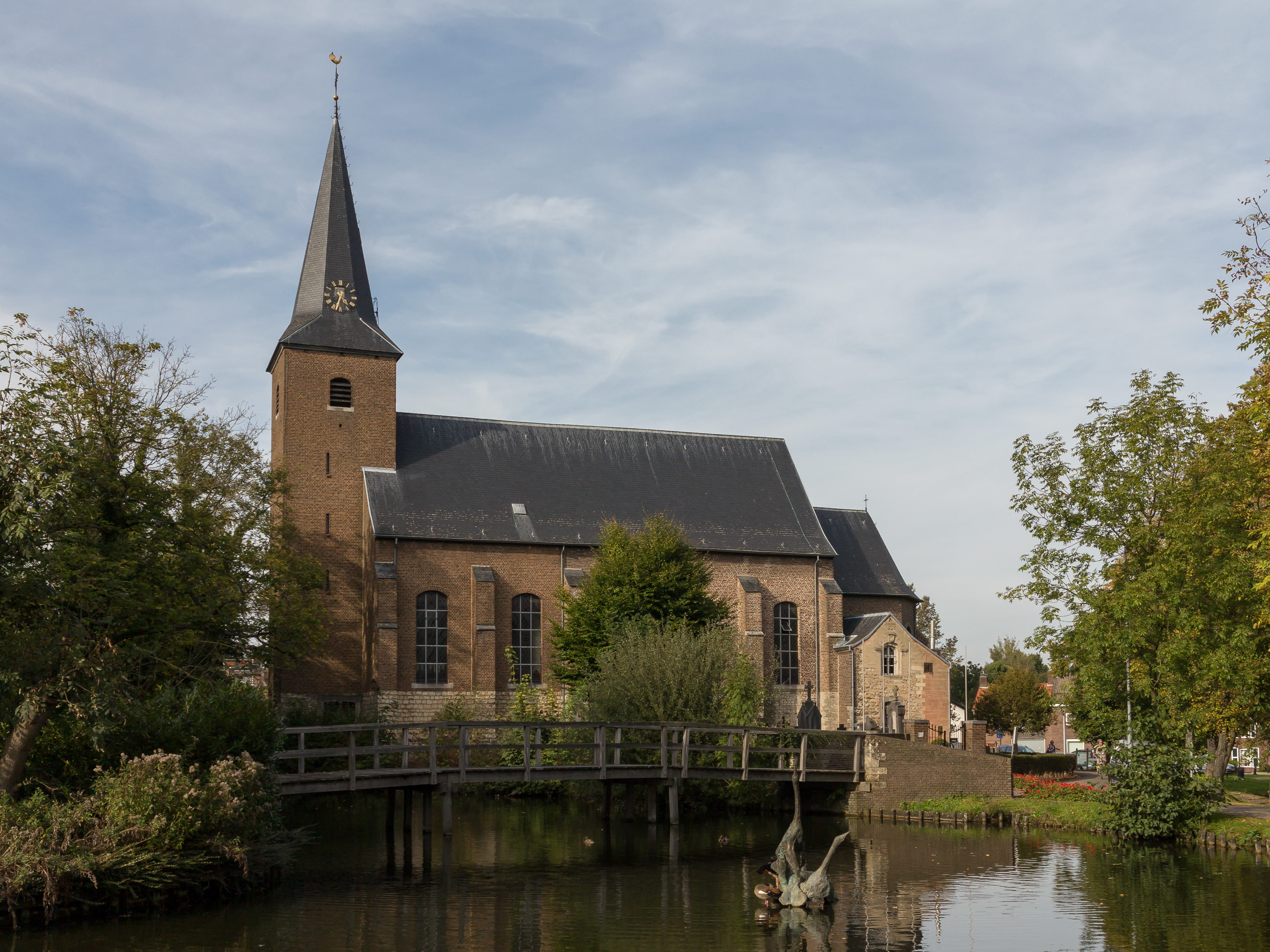 Wijnandsrade,catholic church